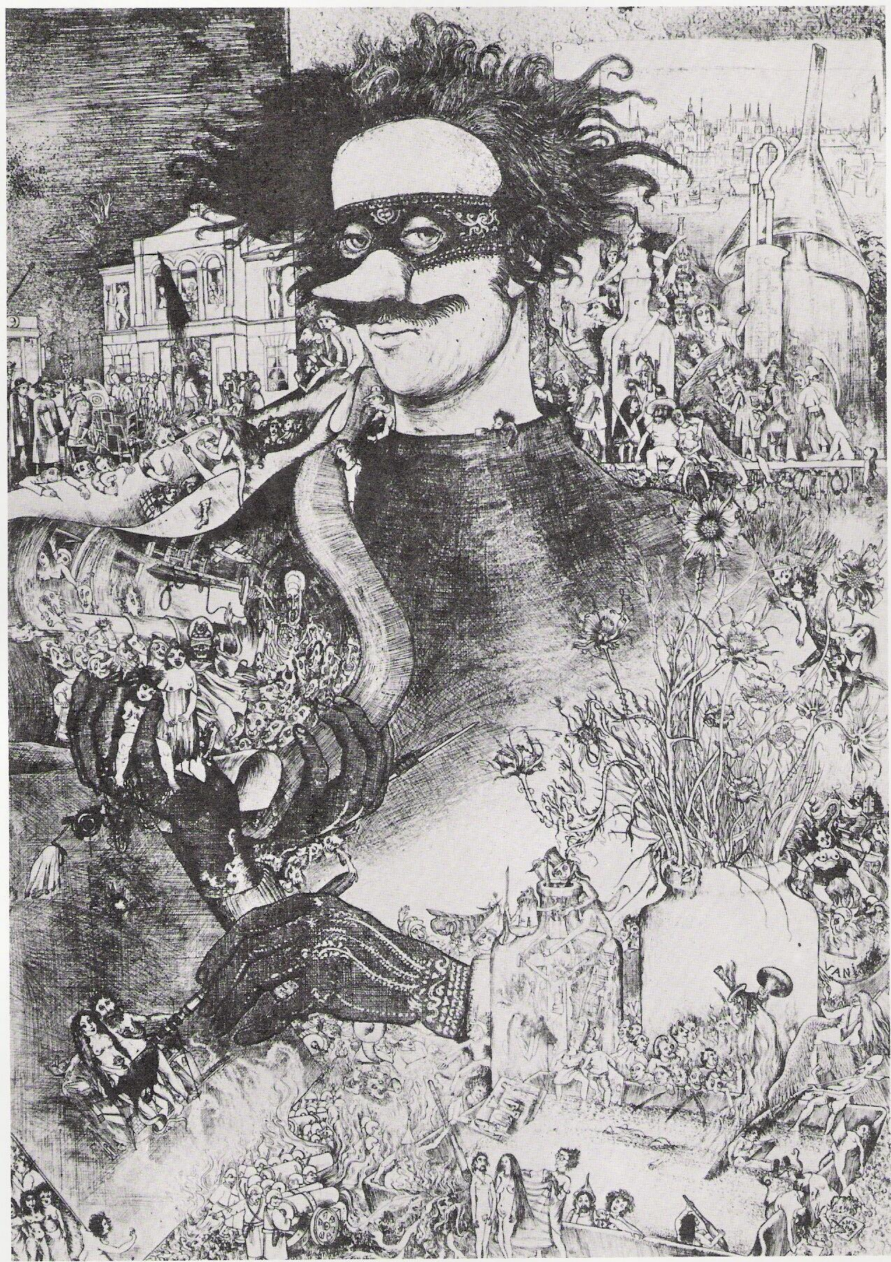 "Self-portrait with mask" by the Belgian artist René De Coninck (1907-1978)